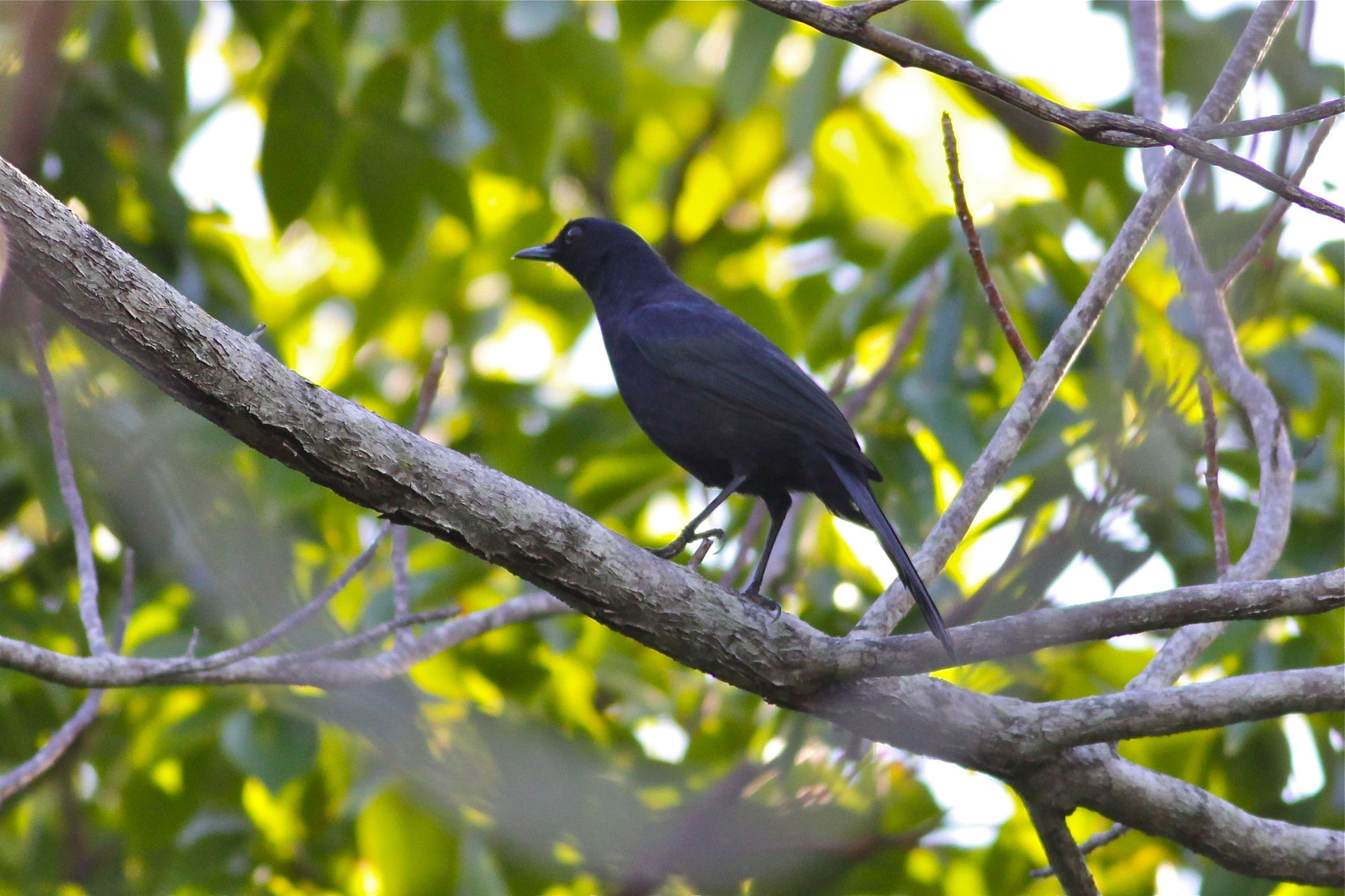 Black Catbird (Melanoptila glabrirostris) on Ambergris Caye, Belize